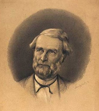 Rudolph Collstrop (1812-1877), Danish merchant and politician